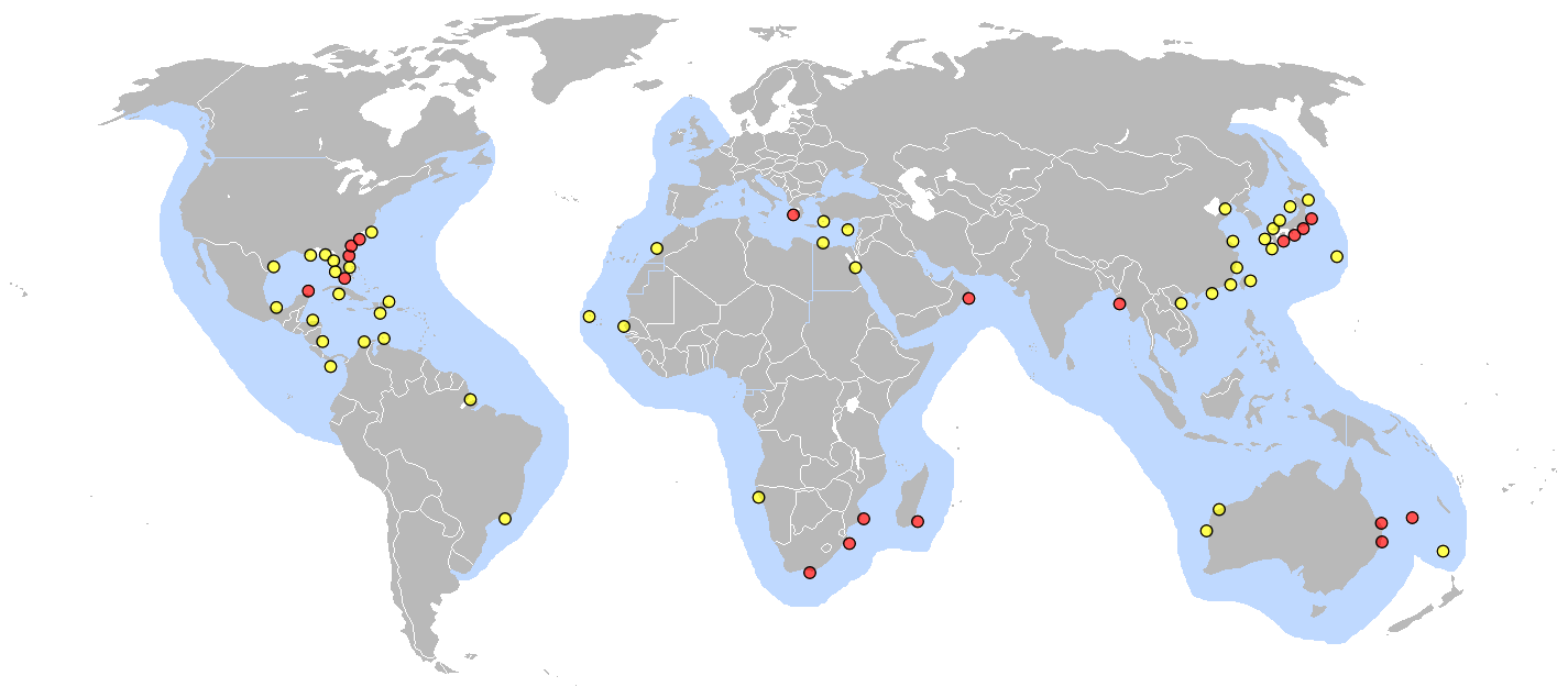 Nesting location of Loggerhead sea Turtle : red dot = major nesting locations, yellow dot=minor nesting locations